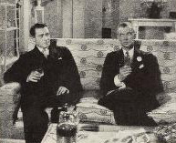 Eduardo Cianelli and Lee Tracy in the 1937 film, CriminalLawyer Other information for an explanation of the copyright for information regarding public domain